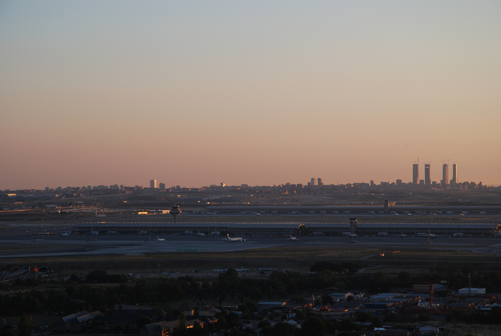 View of Madrid (Spain) from Barajas airport.